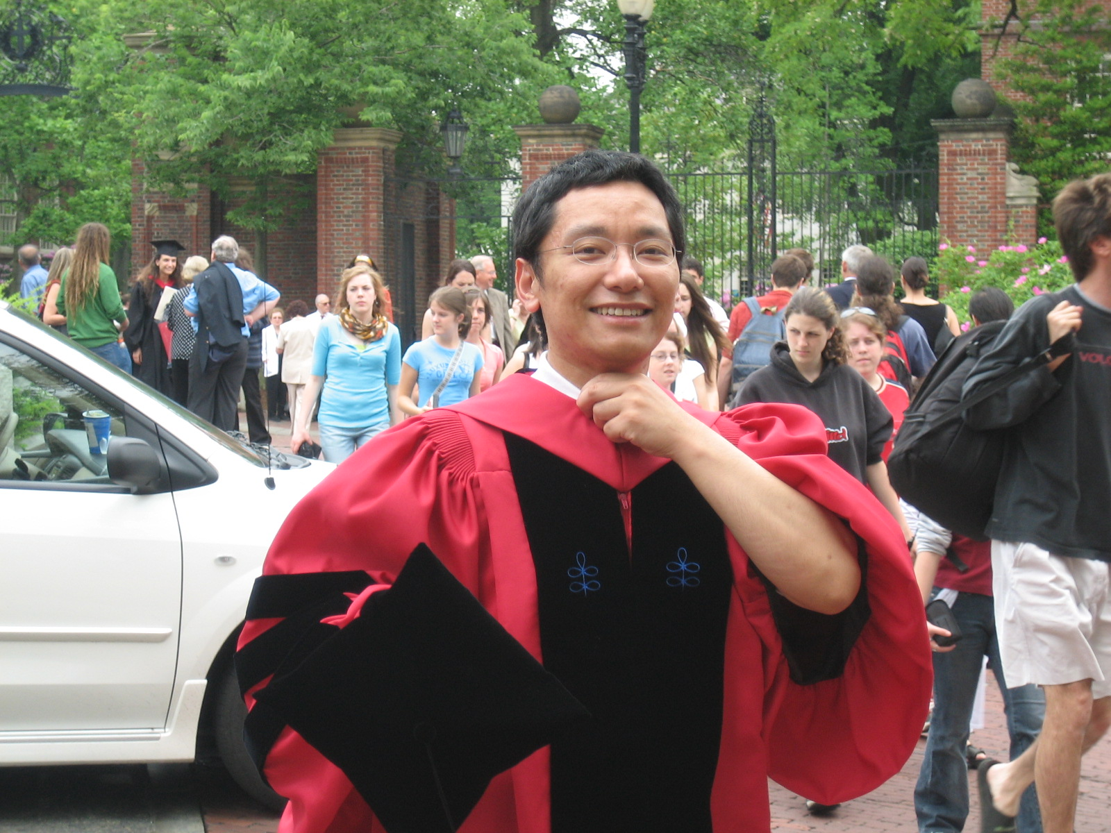 Trungram Gyalwa Harvard Ph.D. graduation day